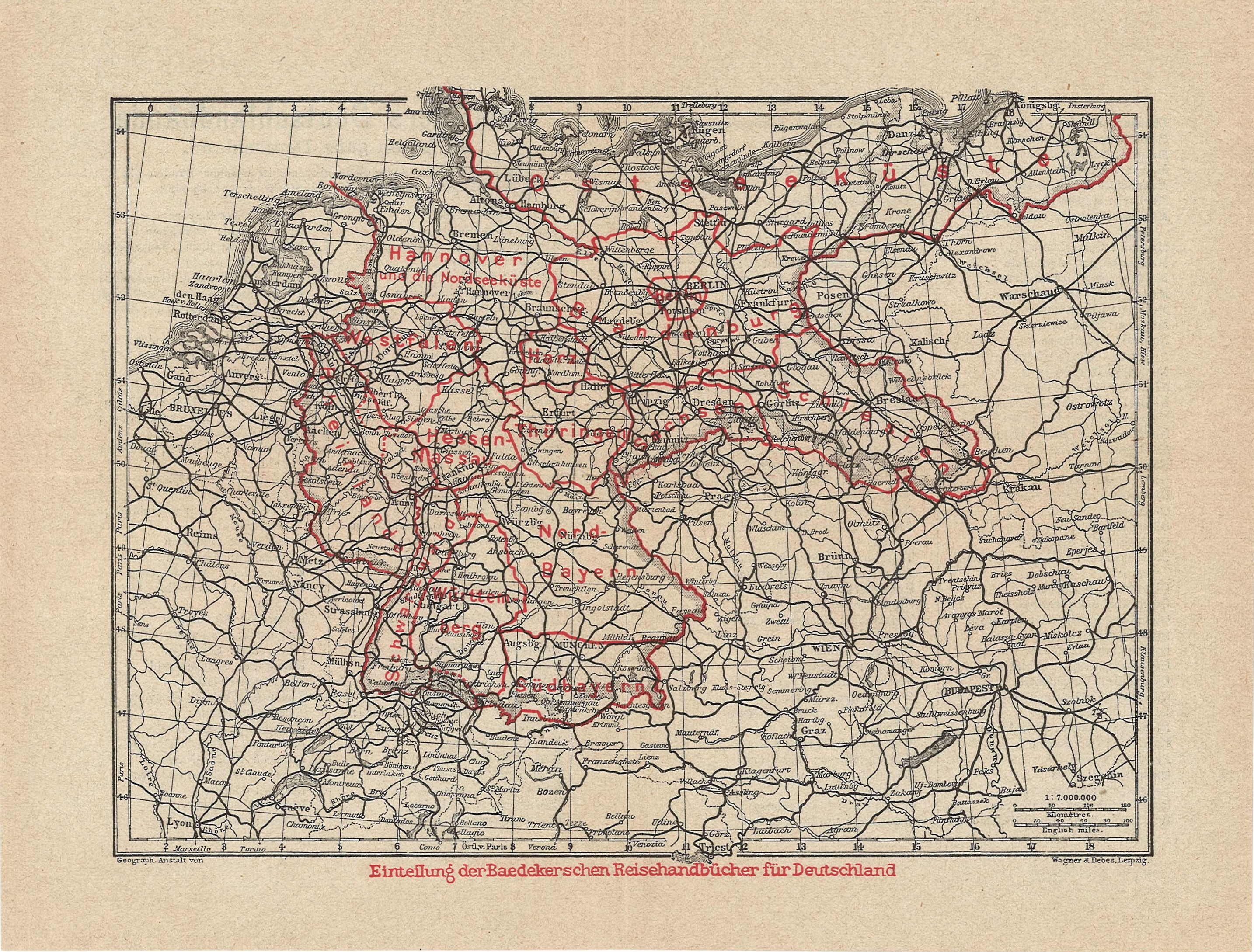 Baedeker's advertising leaflet from 1927, map of Germany